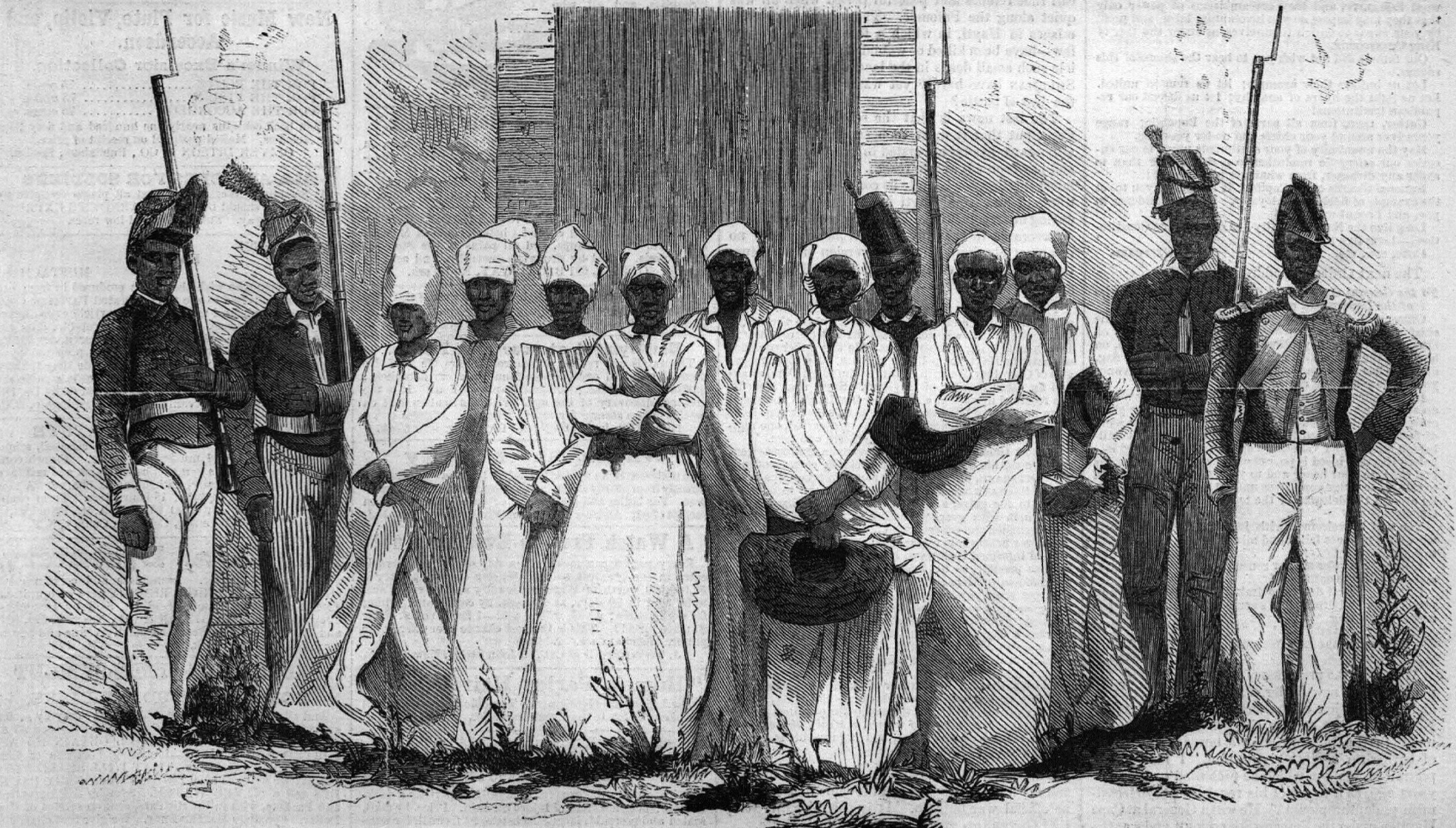 A sketch of the eight Haitian Vooodoo devotees found guilty in 1864 in the affaire de Bizoton. The original image was published in James Redpath, 'The Civil War in Hayti' (Harper's Weekly, 2 September 1865), p. 545, and was captioned: 'Votaries of the God Vaudoux (Snake-Worshipers), Executed for the Crim of Cannibalism at Hayti.'